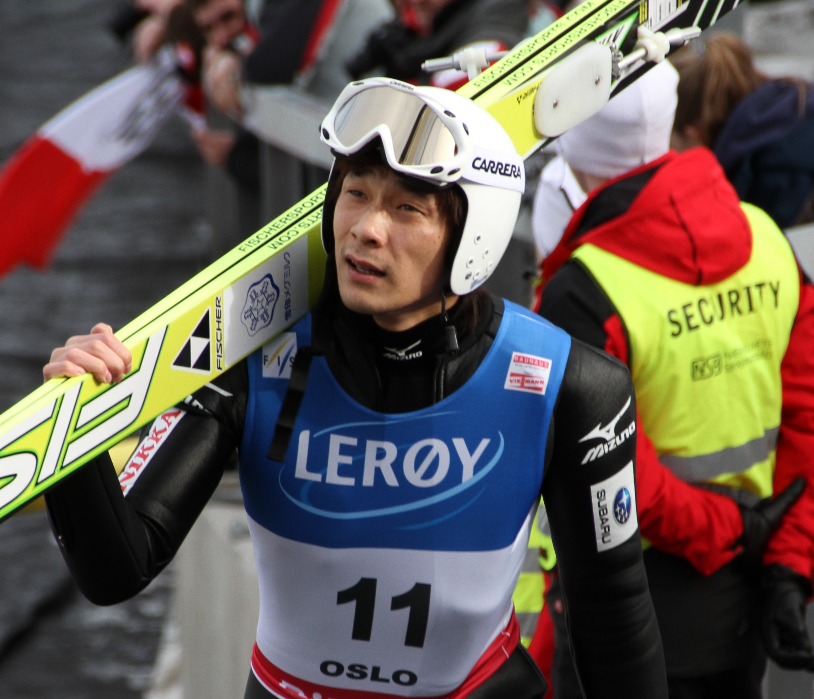 Holmenkollen World Cup March 11, 2012. Oslo, Norway.